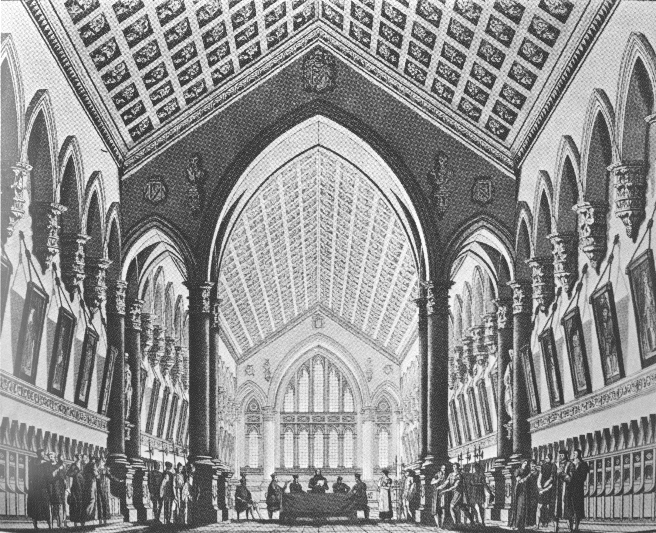 Alessandro Sanquirico - Decor for Rossinis La gazza ladra at the Scala 1817 - The tribunal